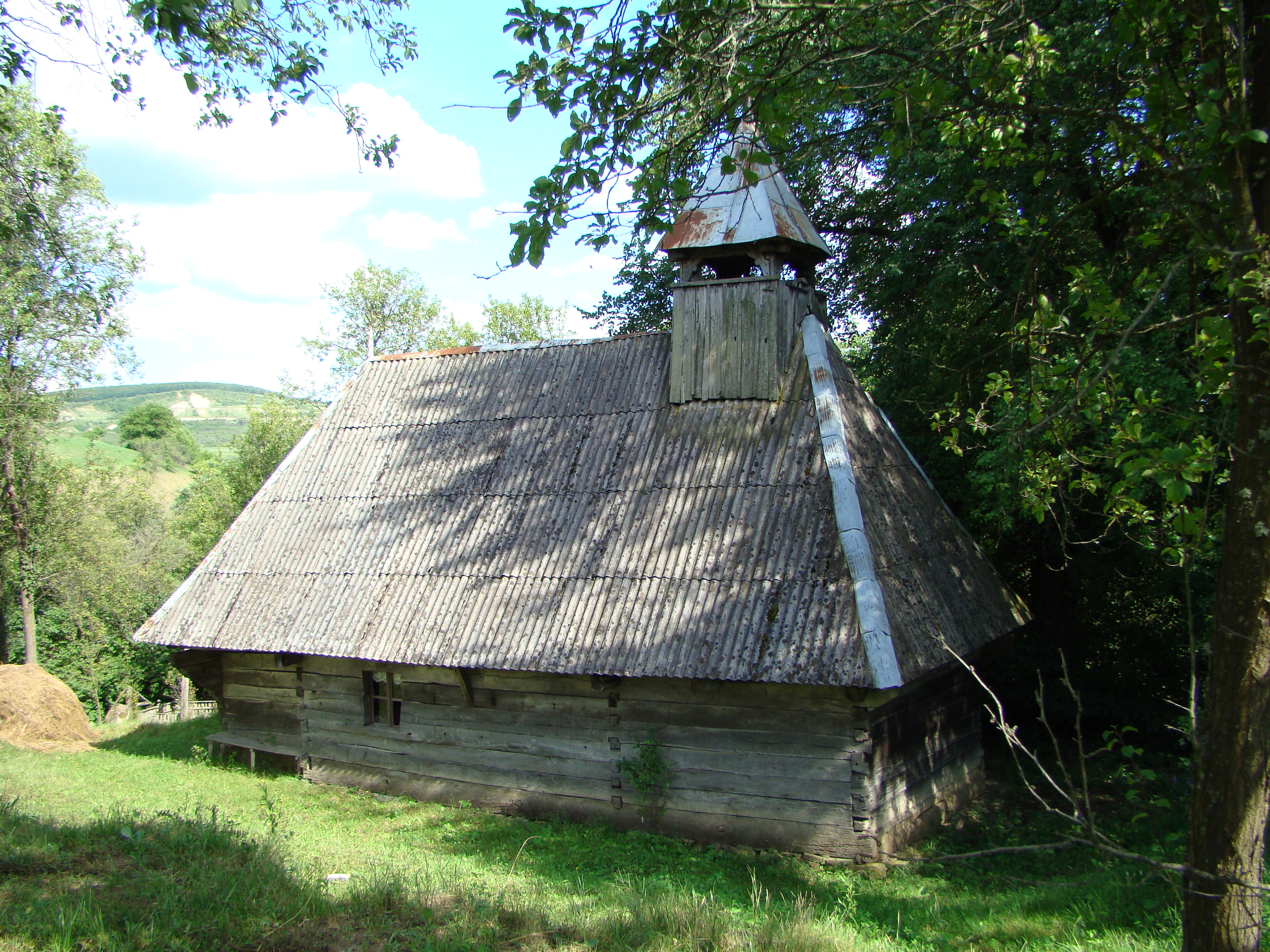 Wooden church in Apatiu, Bistrița-Năsăud county